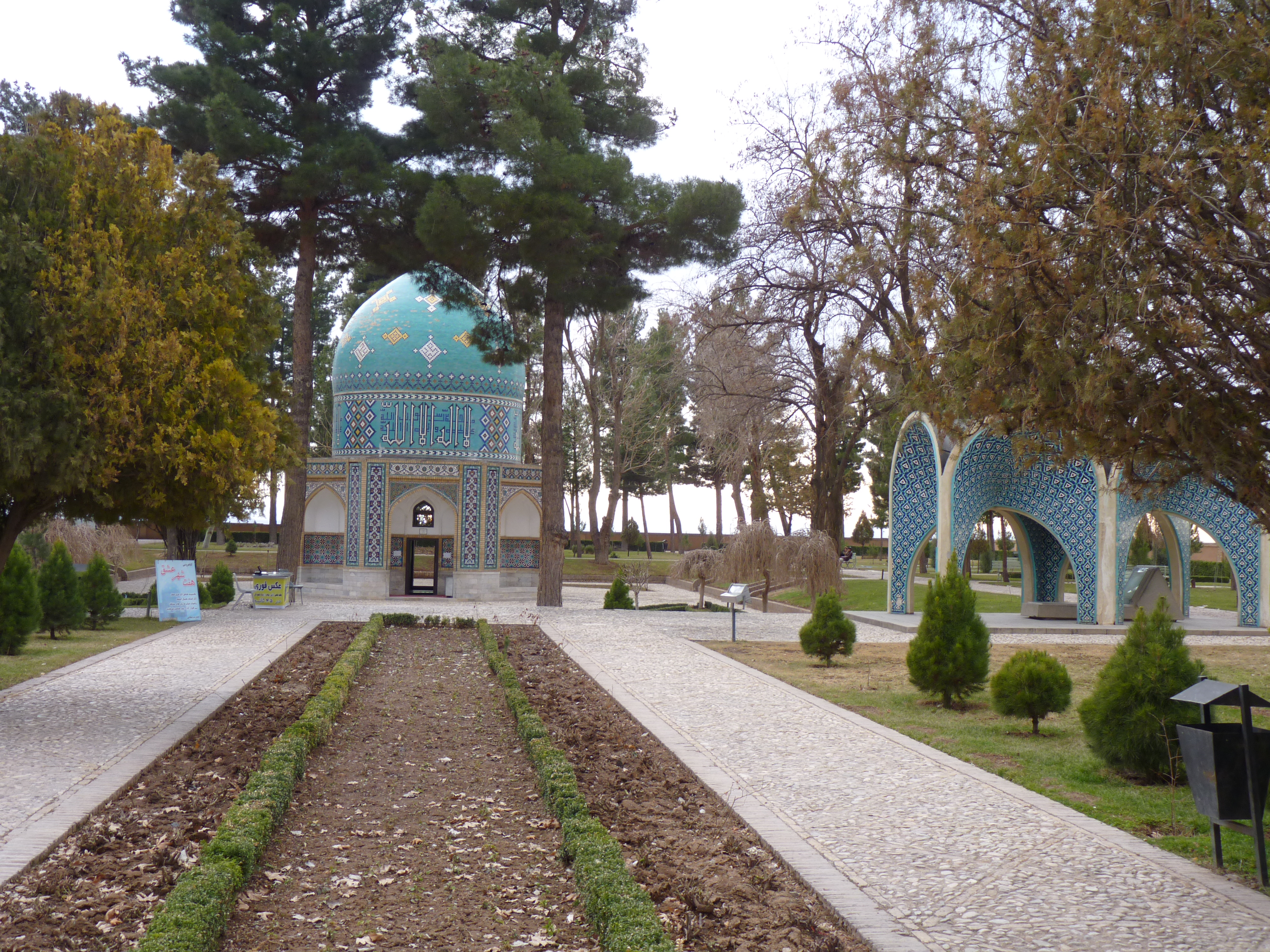 Kamal-ol-Molk mausoleum & Attar Mausoleum - Nishapur